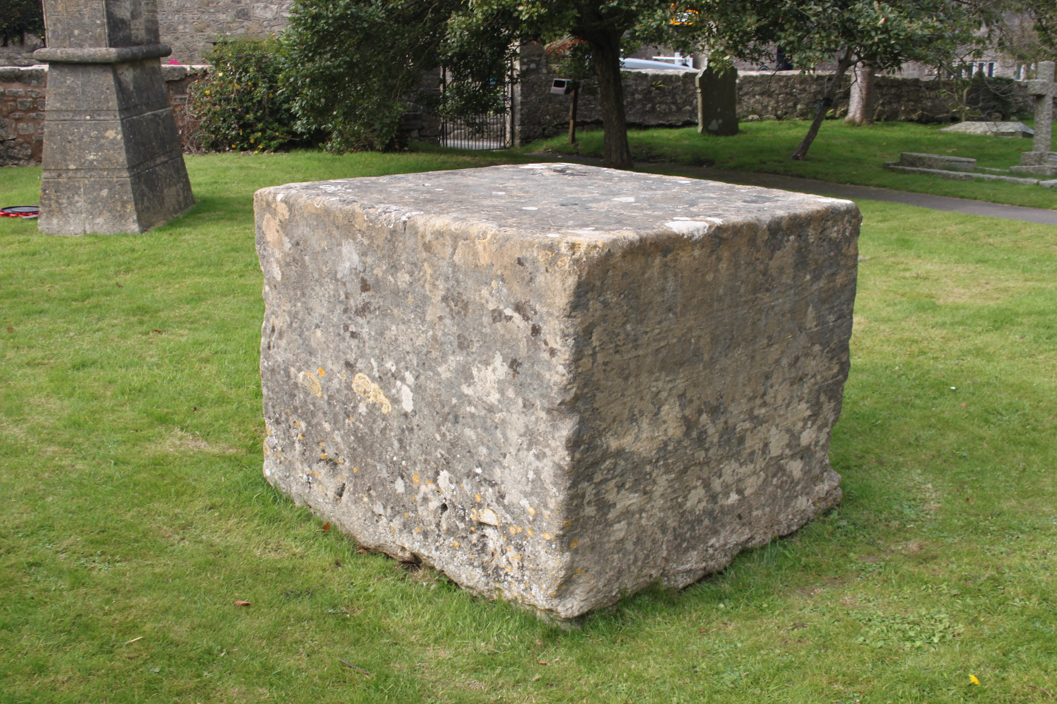 St Michael's church, Dundry. Dundry stone block